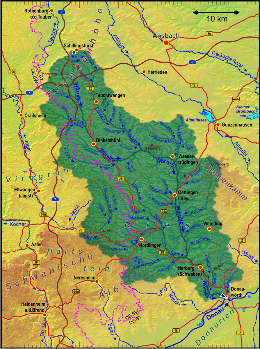 Catchment area of the Wörnitz river